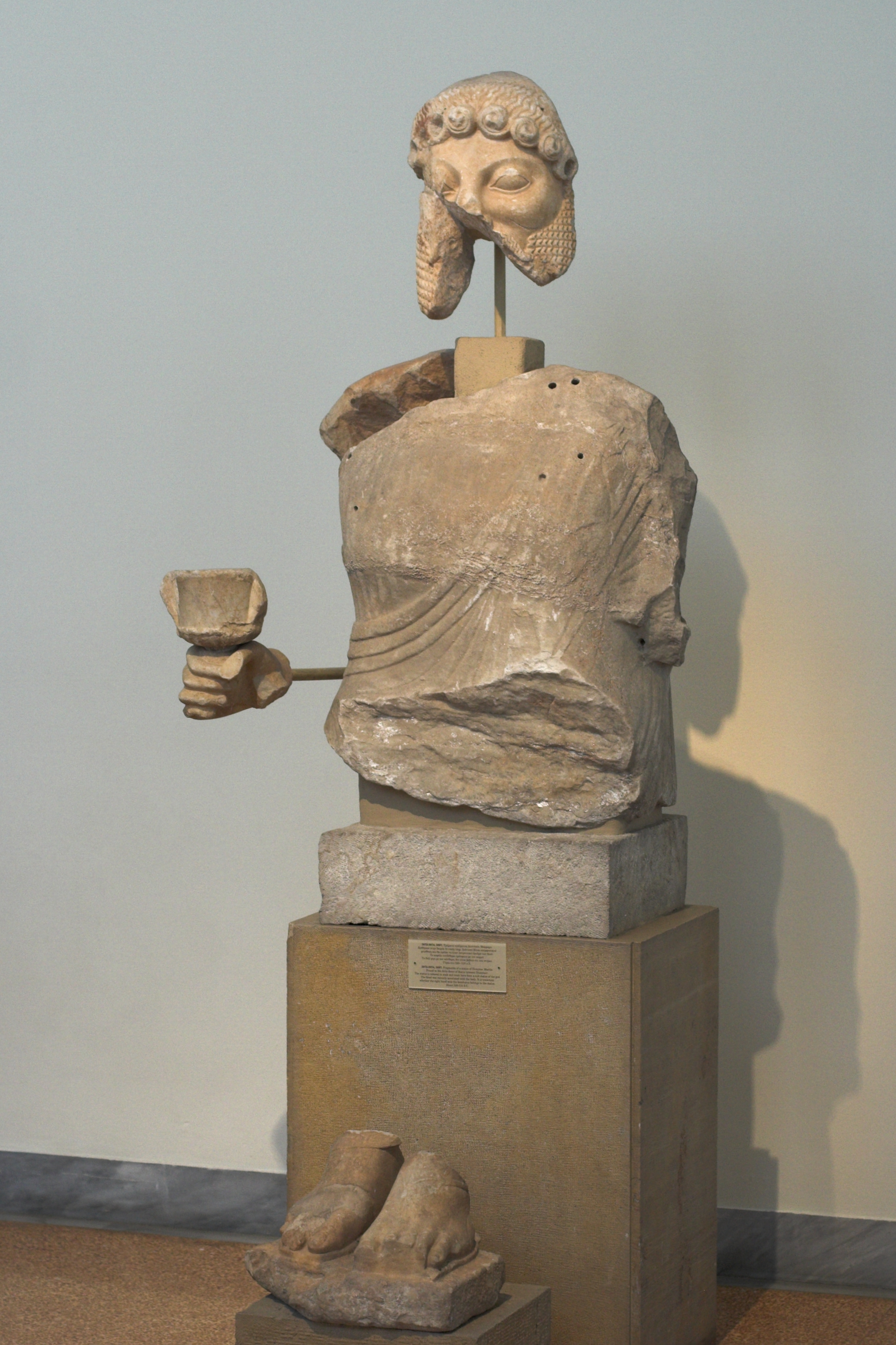 Dionysus, perhaps the oldest identifiable statue, 6 century BC, National Archaeological Museum of Athens N 3074.